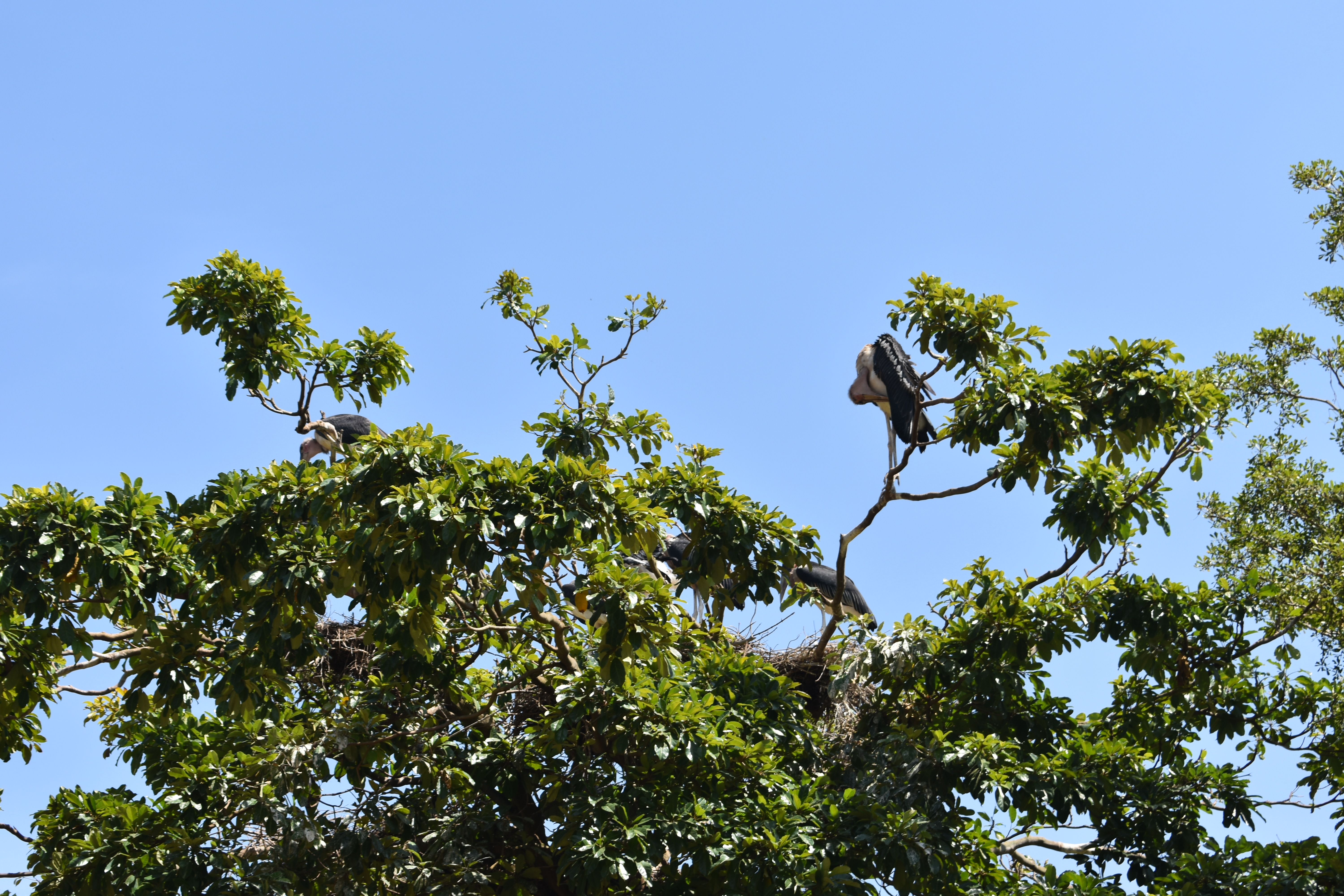 Marabou stork also known as Leptoptilos crumenifer in their Community. This is an image with the theme "Play" from: Uganda